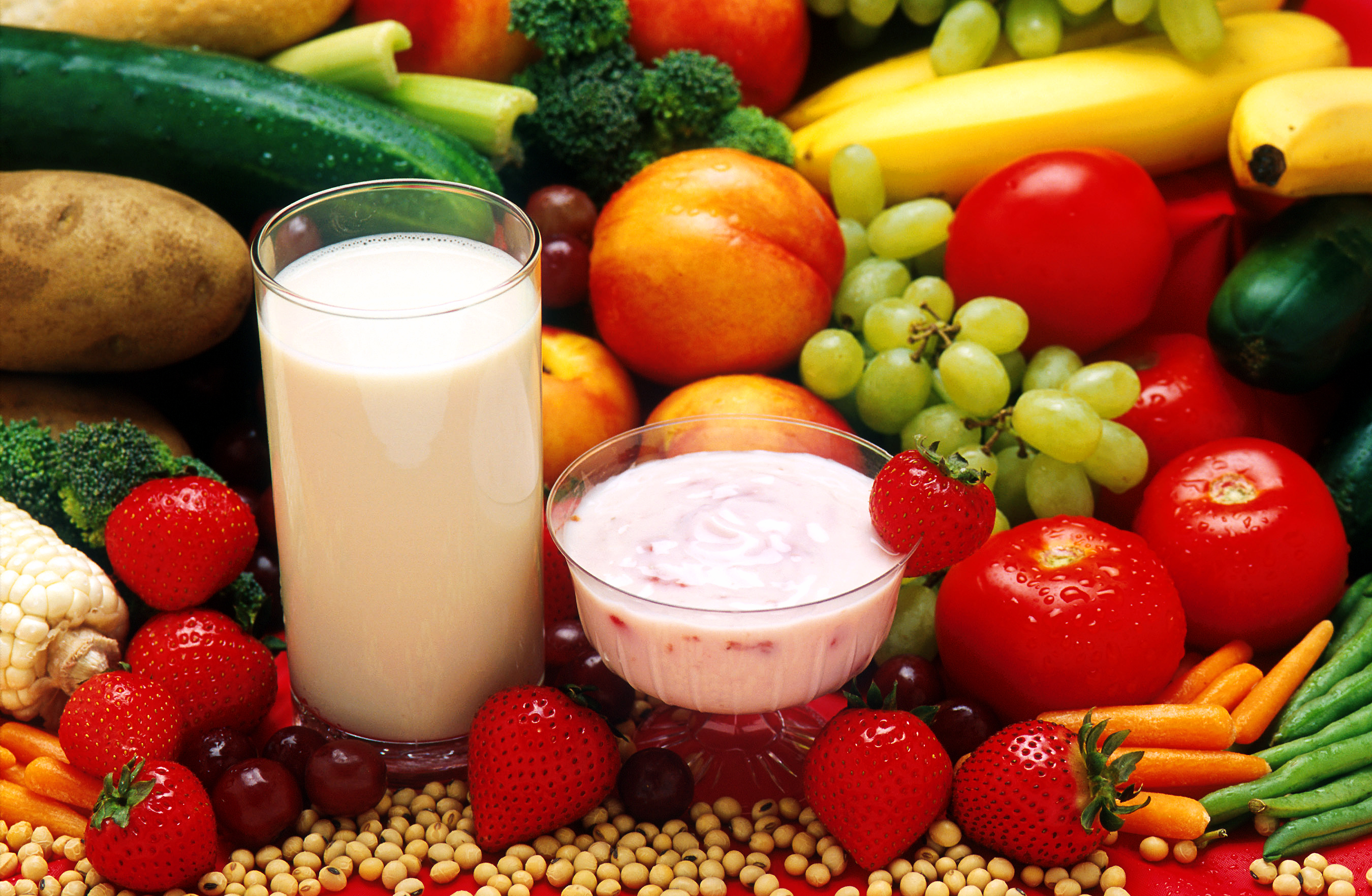 A diet rich in soy and whey protein, found in products such as soy milk and low-fat yogurt, has been shown to reduce breast cancer incidence in rats.